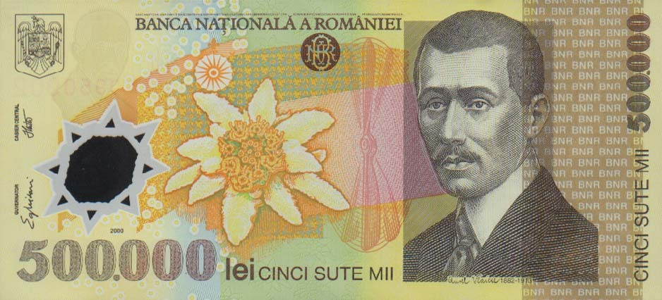 500 000 Romanian leu from 2000 - obverse